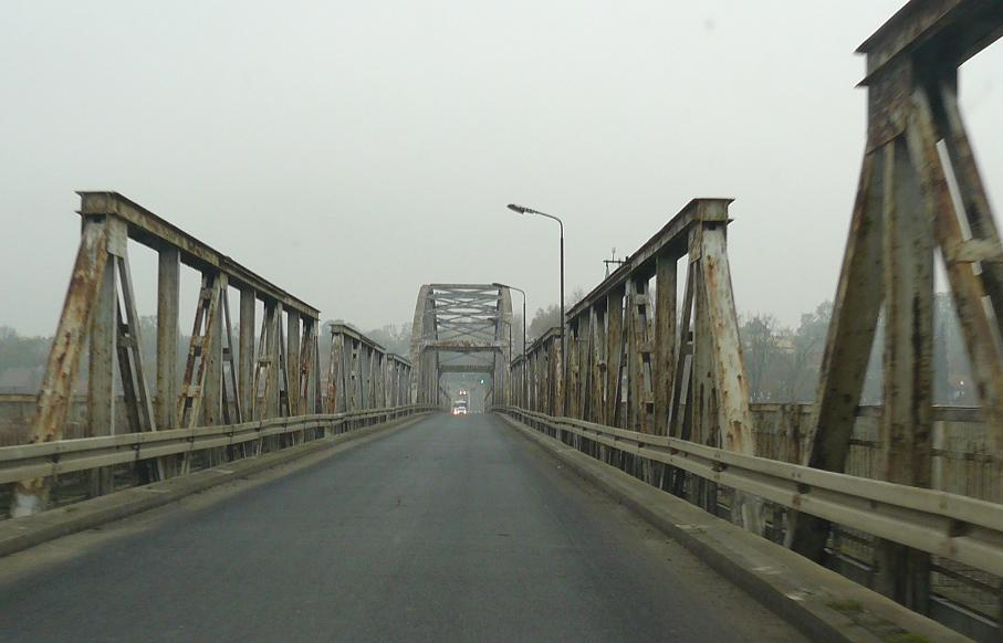 Cigacice Bridge (Odra River) PL